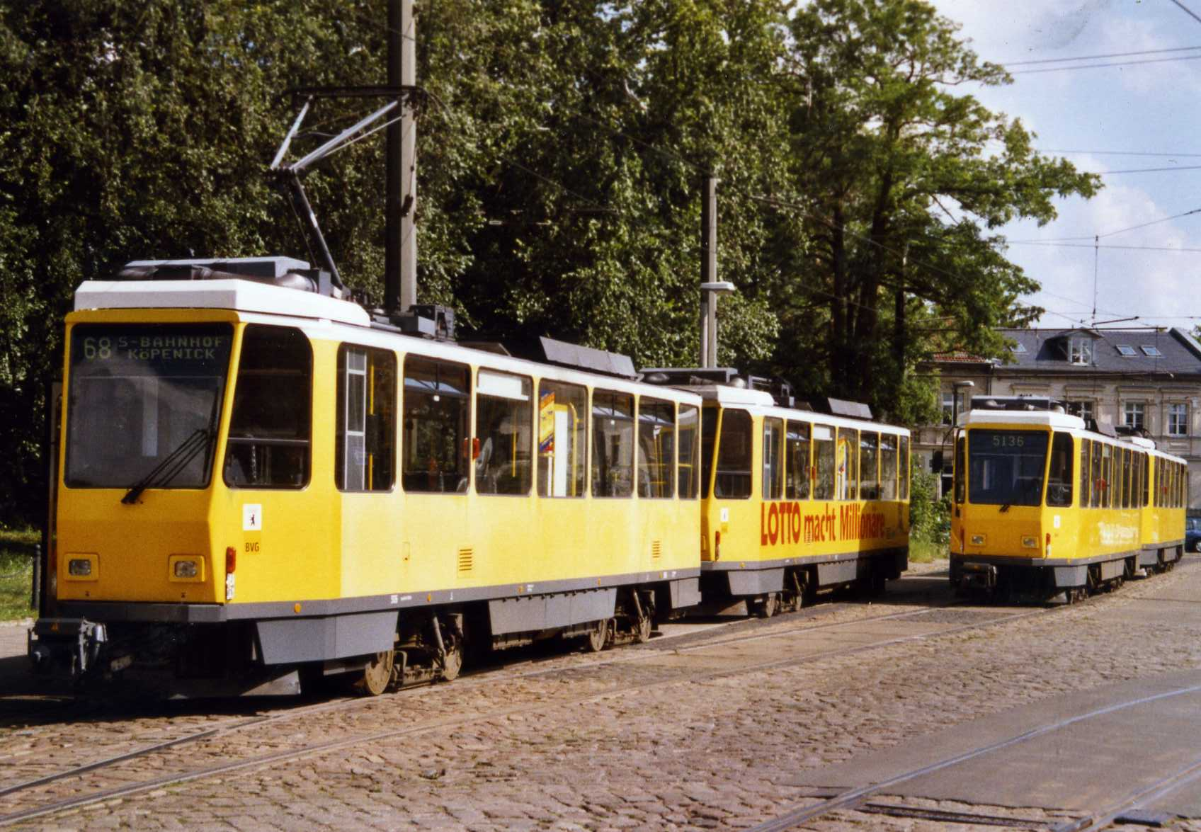 There is no discernable fleet number on the lead tram. No doubt, they only appear on the rear, as with 5136 on the right. The livery looks very poor compared with the earlier orange cream and black.